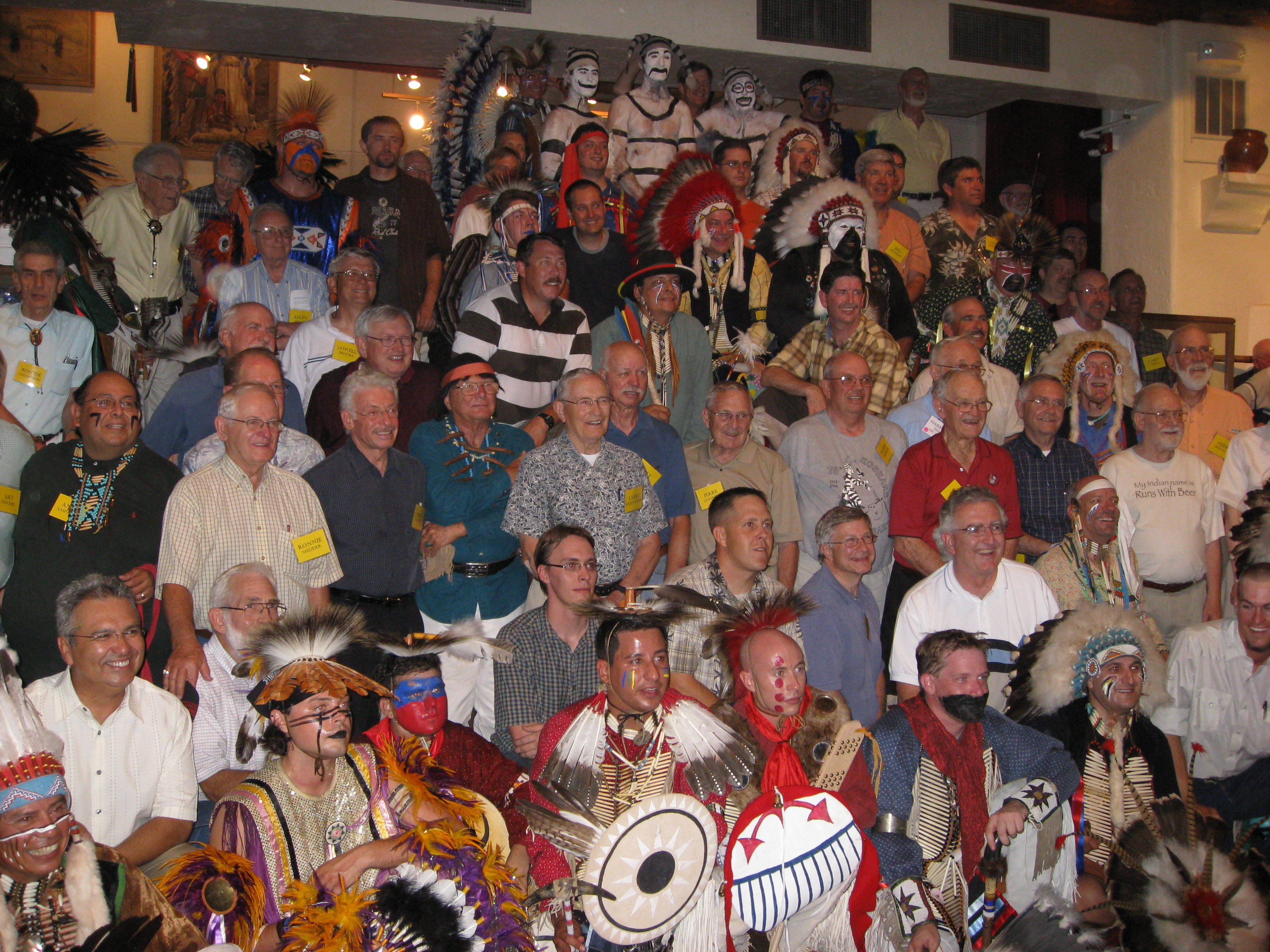 Group photo of current and alumni Koshare dancers at the 75th anniversary on July 25, 2008